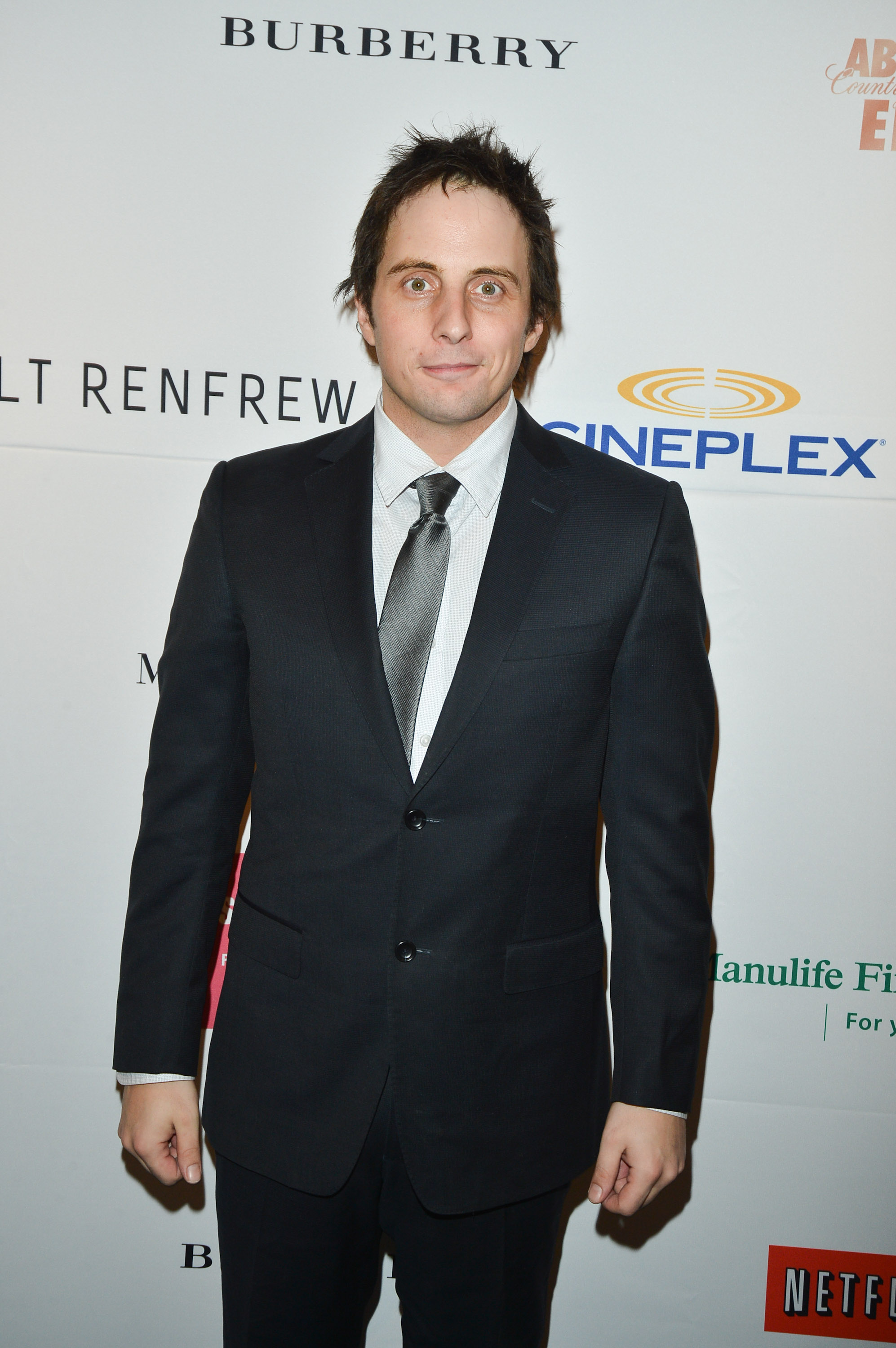 Jonny Harris ("Murdoch Mysteries") at the 2013 CFC Annual Gala & Auction.